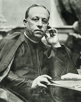 Miquel Costa i Llobera (1854-1922), spanish poet